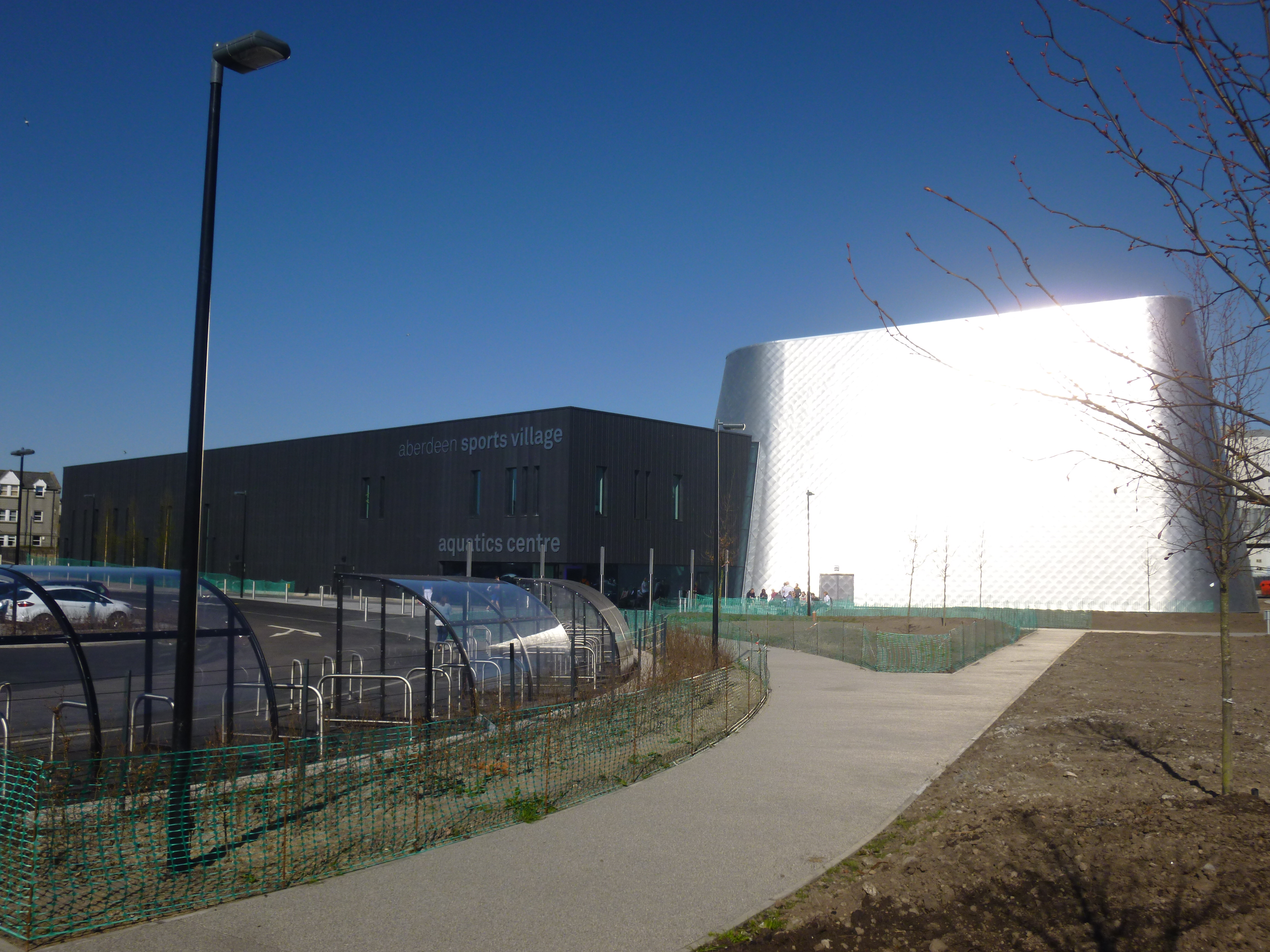 Aberdeen Aquatics Centre - Aberdeen Sports Village